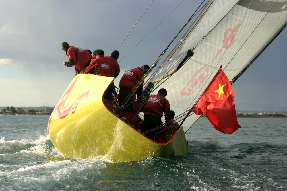 First Sailing day of LONGTZE CHN95